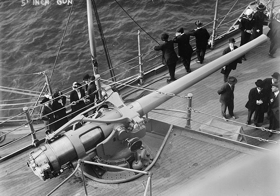 5"/51 (12.7 cm) gun, possibly on USS Texas B-35, between 1910 and 1915. Created and published by Bain News Service. Donated to Library of Congress (LOC) as part of George Grantham Bain Collection and is listed as PD by LOC.